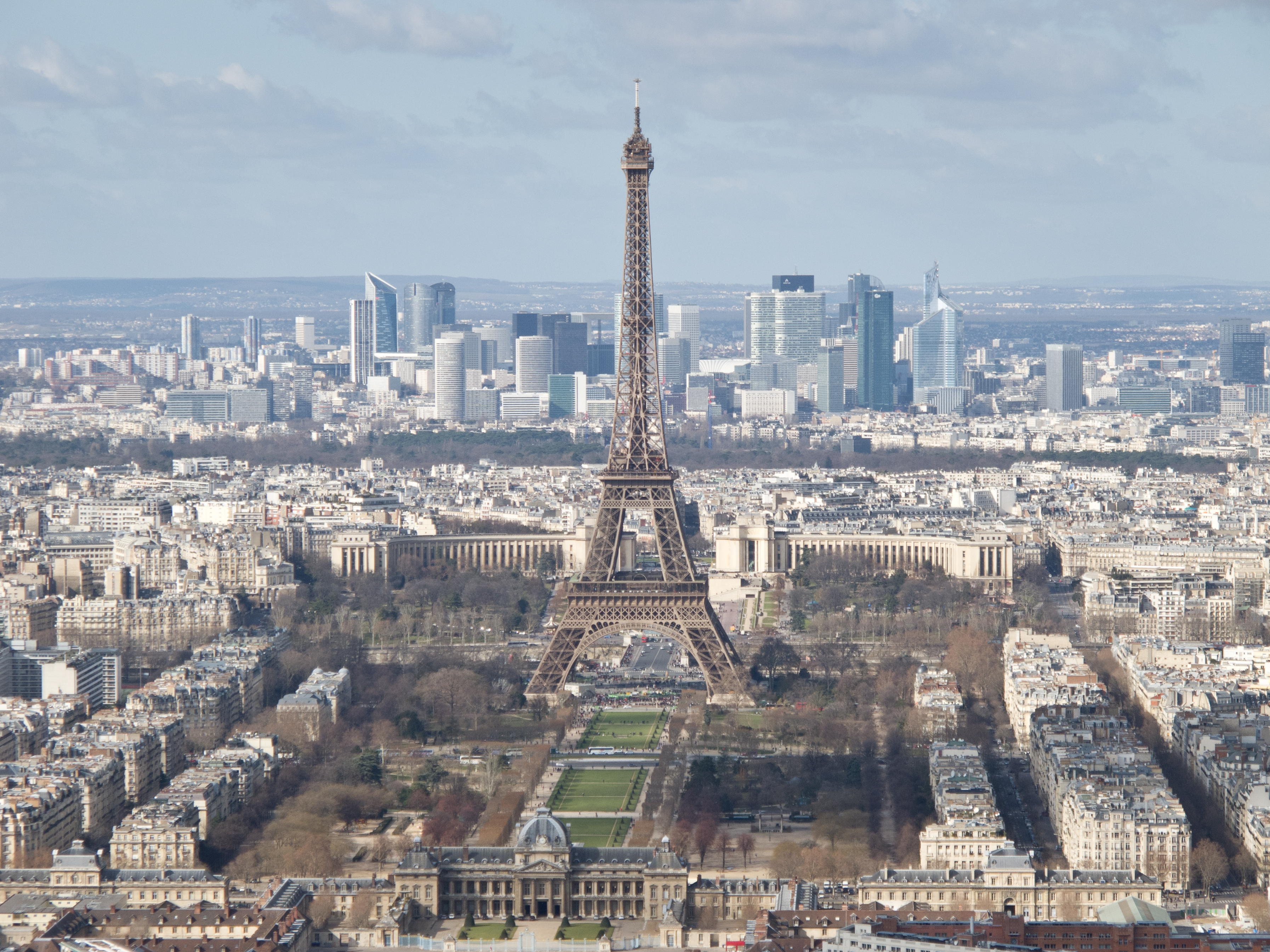 Tour Eiffel, École militaire, Champ-de-Mars, Palais de Chaillot, La Défense (Paris, France) from the Tour Montparnasse.